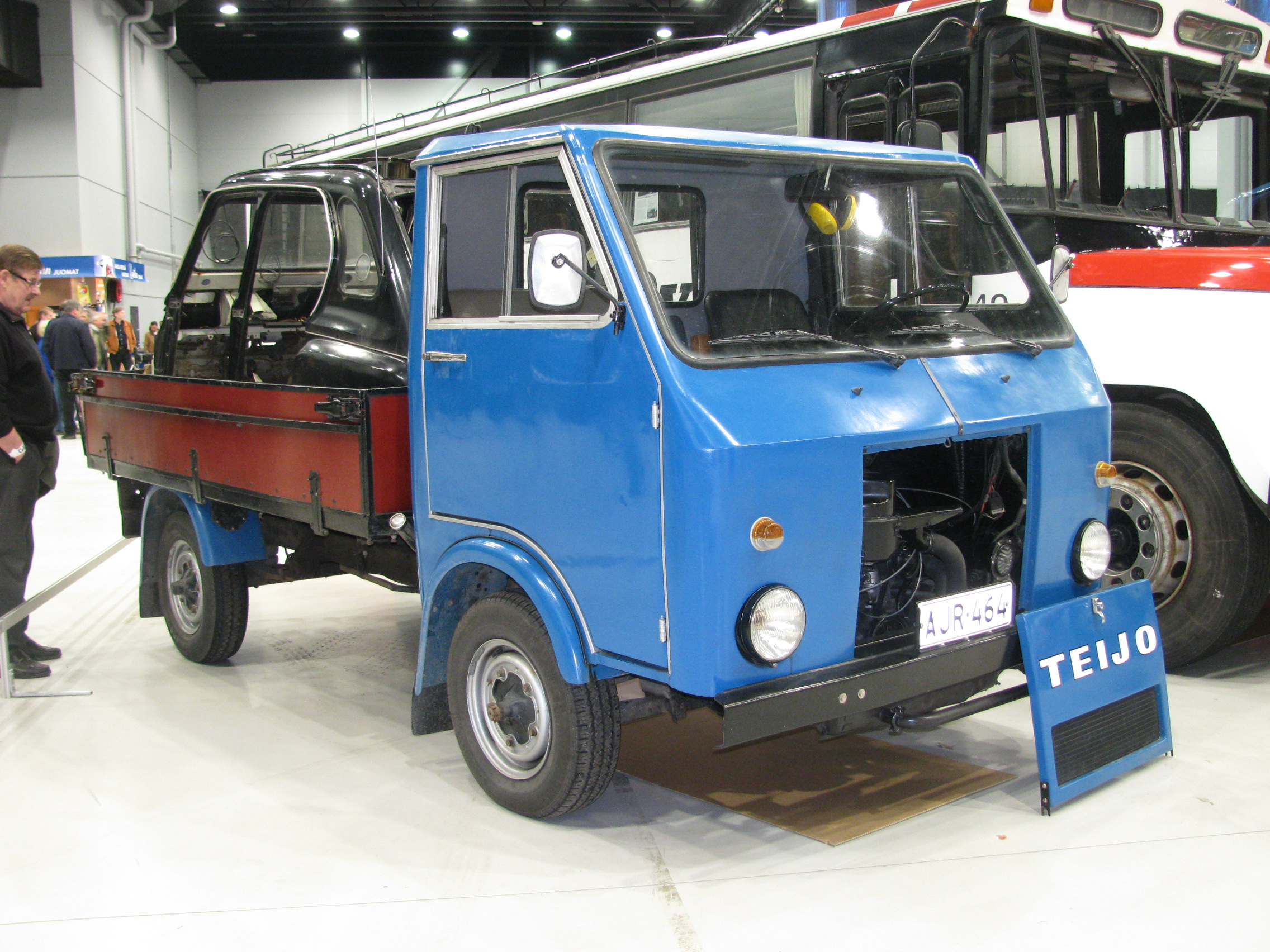 Teijo lorry, Classic Motor Show in Lahti, Finland.